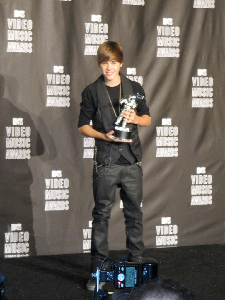 Justin Bieber at 2010 MTV Video Music Awards